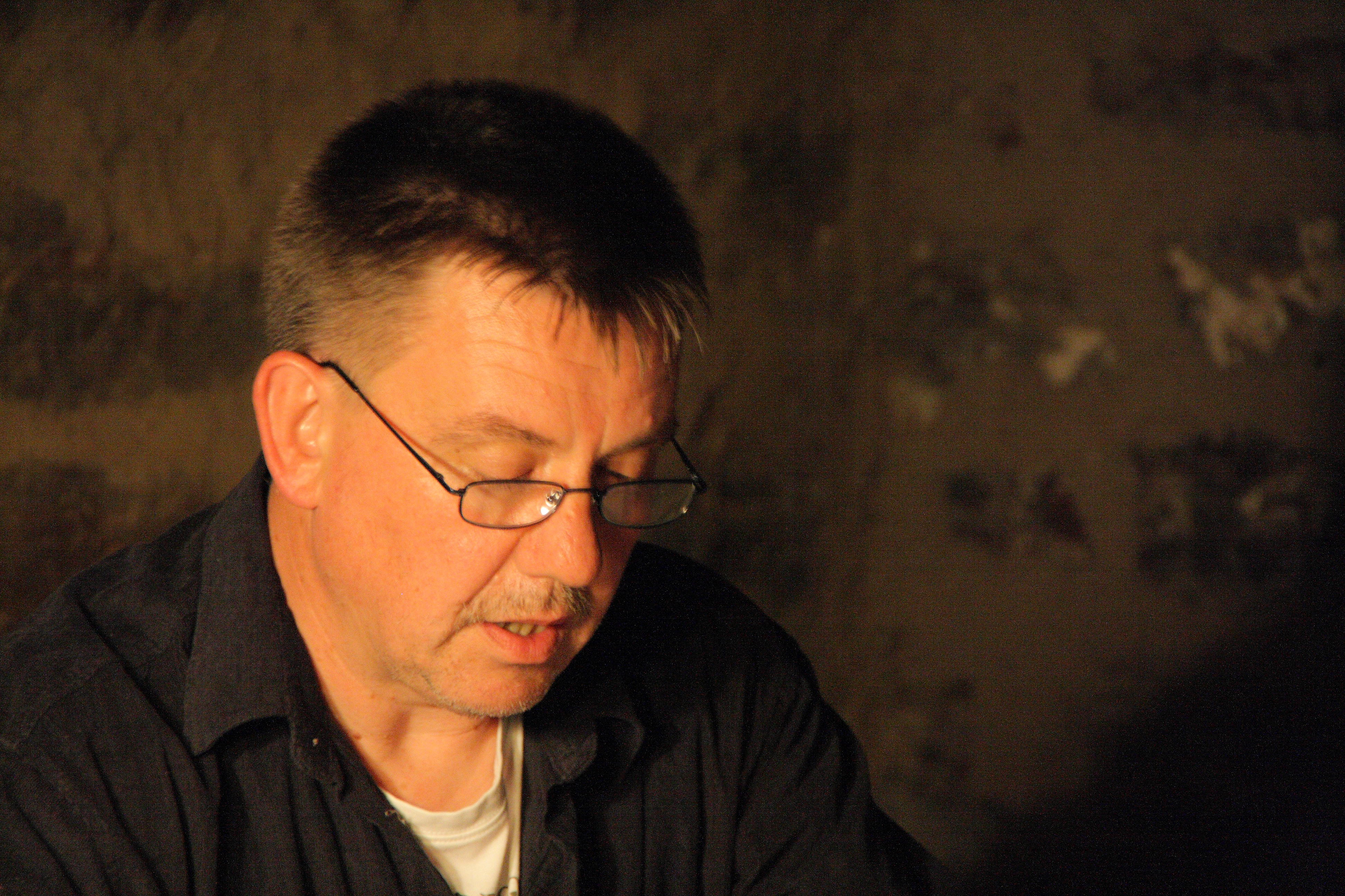 Crime novel author Ulrich Hefner at a reading by candle light in the Deutschordensmuseum Bad Mergentheim arranged by Buchhandlung Moritz und Lux.